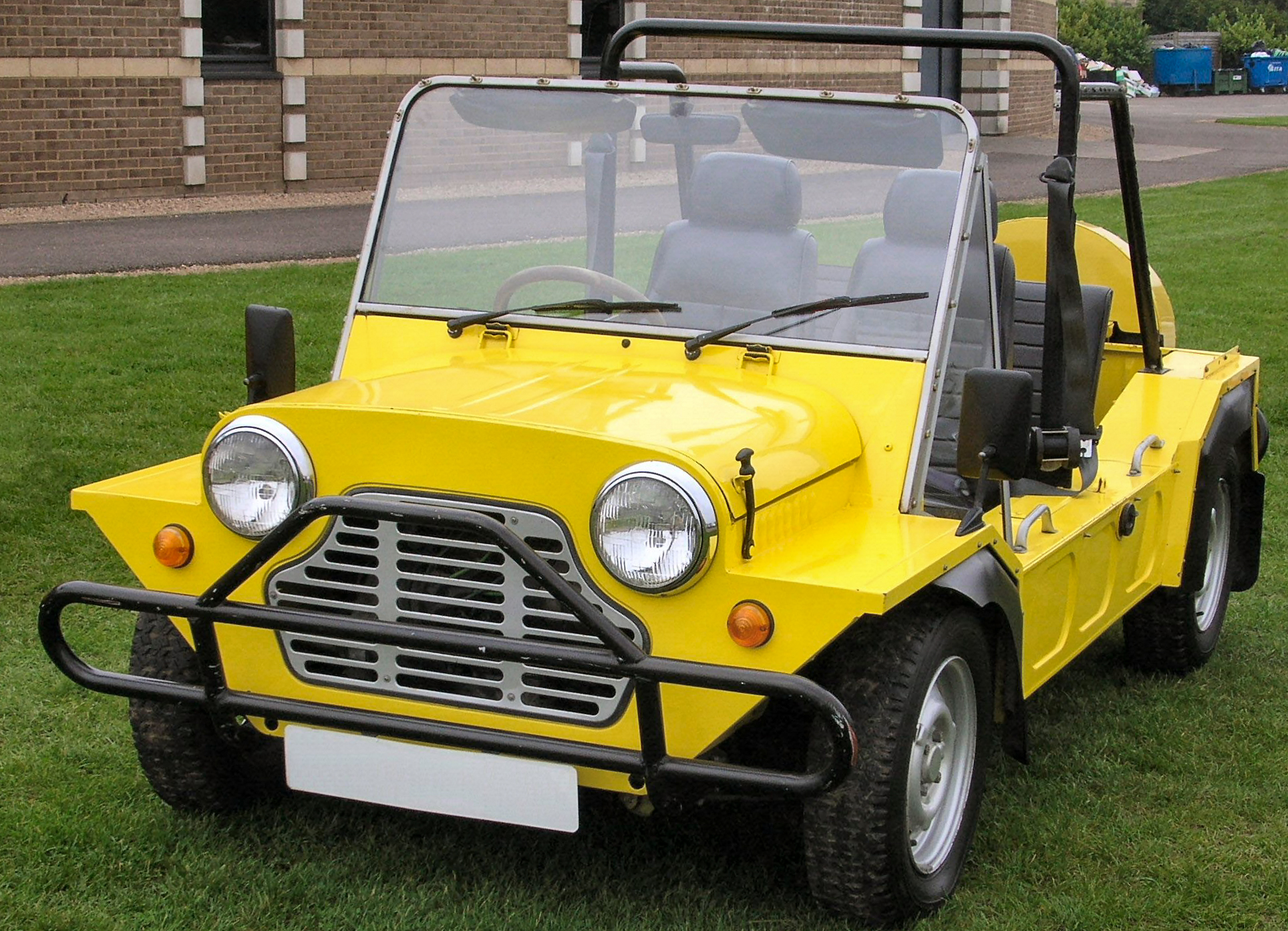 A 1984 Mini-Moke. This Portuguese-built vehicle was photographed at the Alec Issigonis centenary rally at the Heritage Motor Centre, Gaydon, UK. This vehicle is kept at the Heritage Motor Centre.